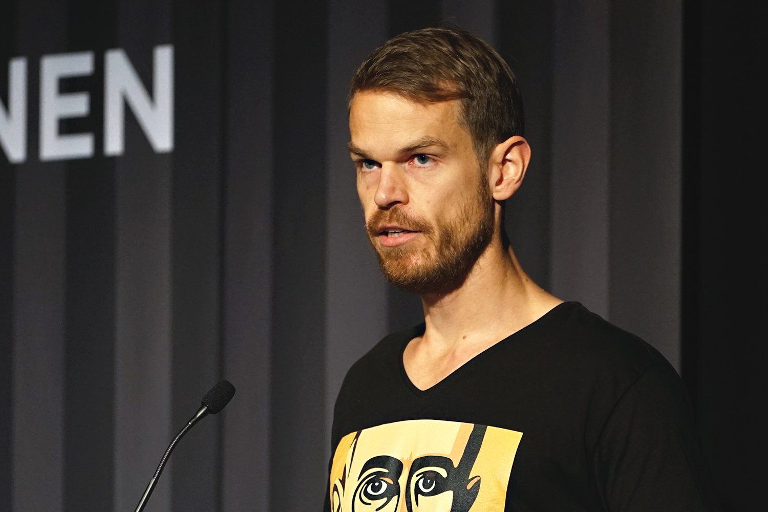 Svend Brinkmann - Danish psychologist and writer at the Copenhagen Book Fair "BogForum 2017", Copenhagen, Denmark